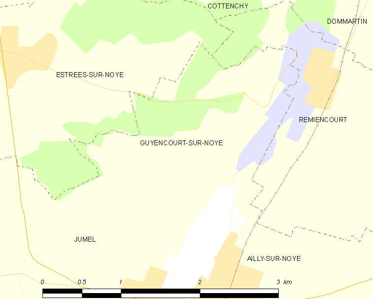 Map of French municipality Guyencourt-sur-Noye